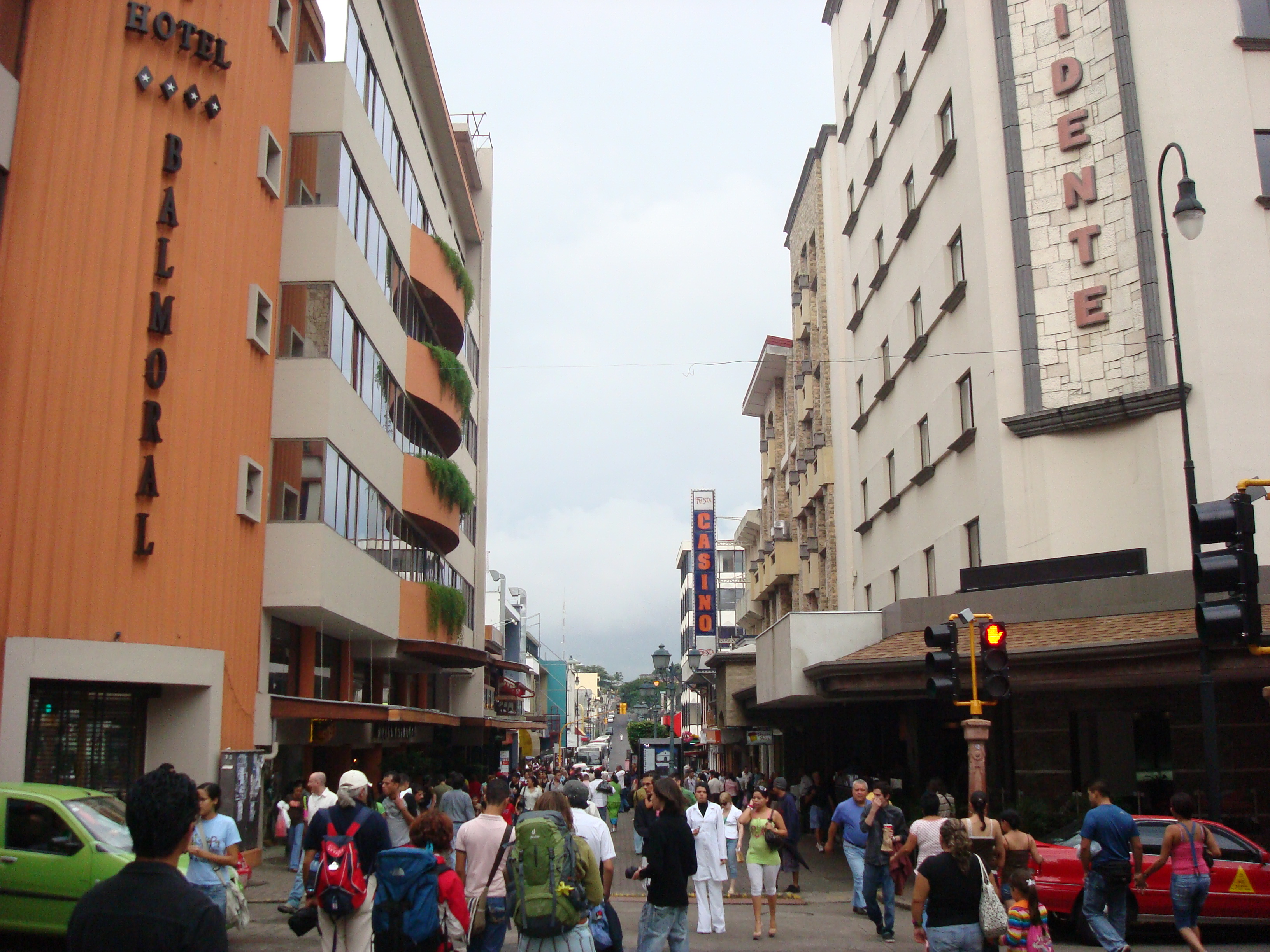 Boulevard in Central Avenue. Hotel Balmoral front